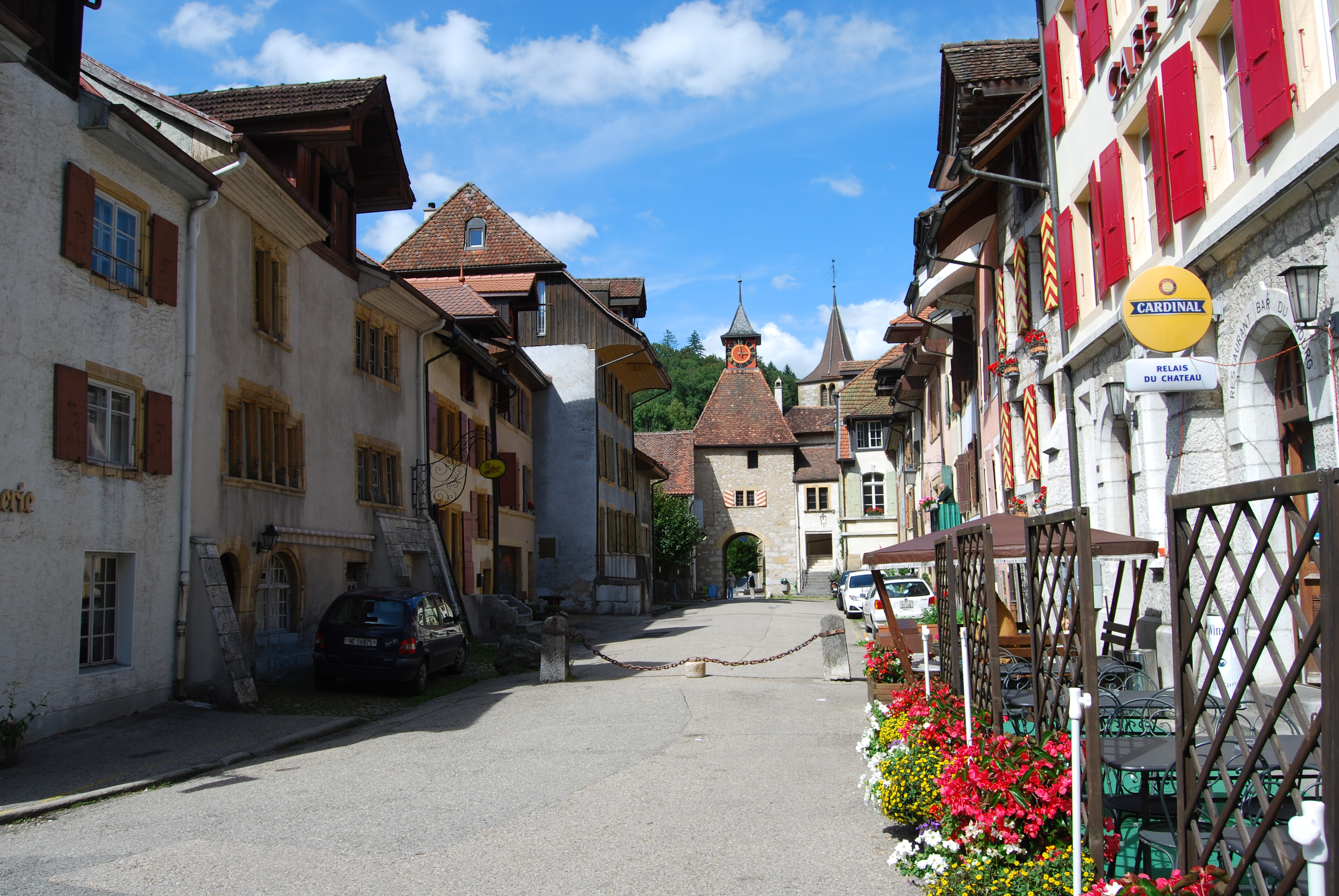 Valangin, canton of Neuchâtel, SwitzerlandEsperanto: Valangin, Kantono Neŭŝatelo, Svislando